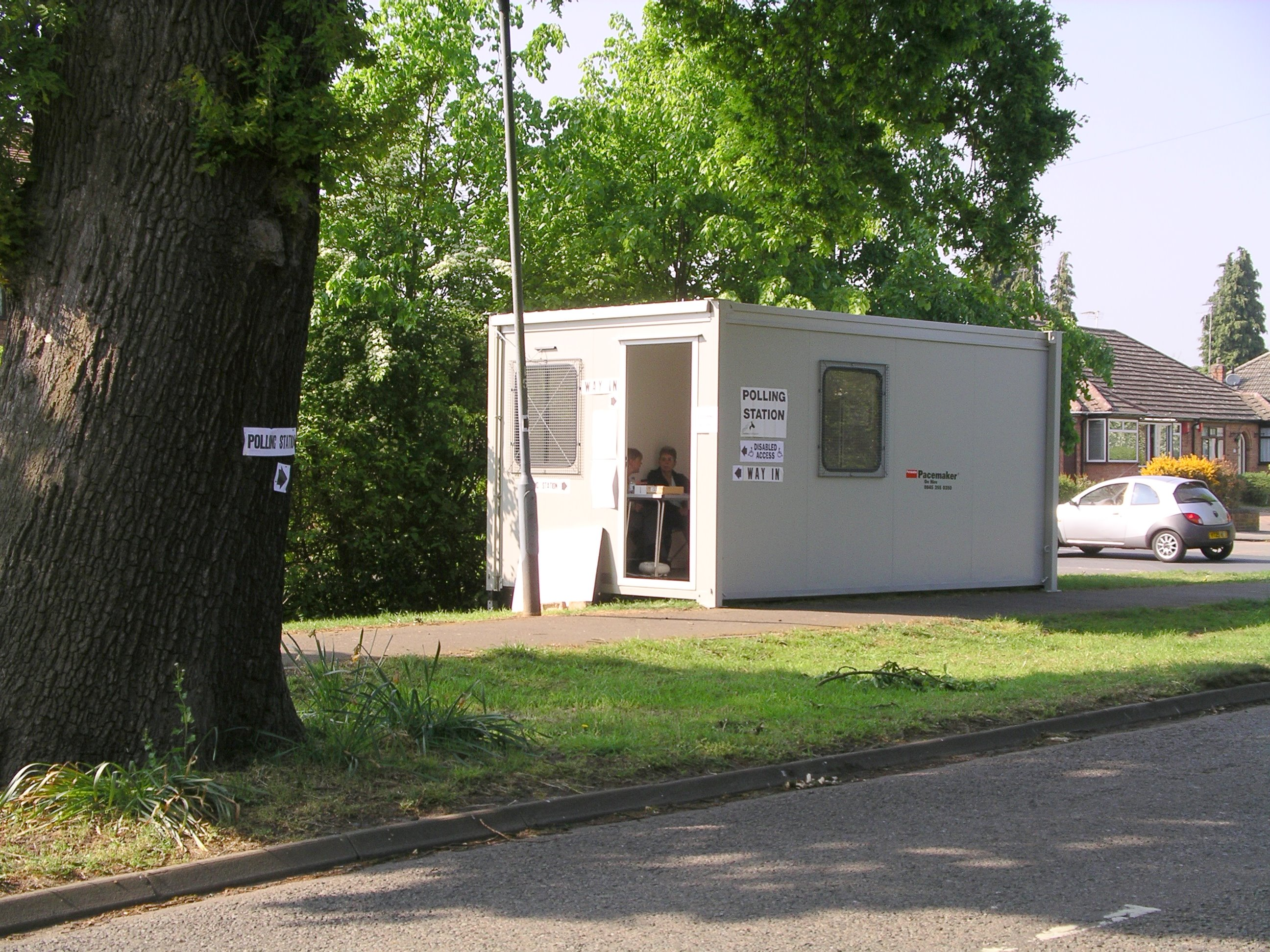 A polling station in a portable cabin in the South of Coventry. The structure was temporary and in position on the 3 May 2007 for the local election.